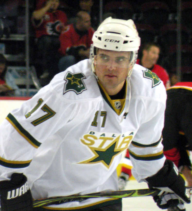 Dallas Stars forward Toby Petersen prior to a National Hockey League game against the Calgary Flames, in Calgary.